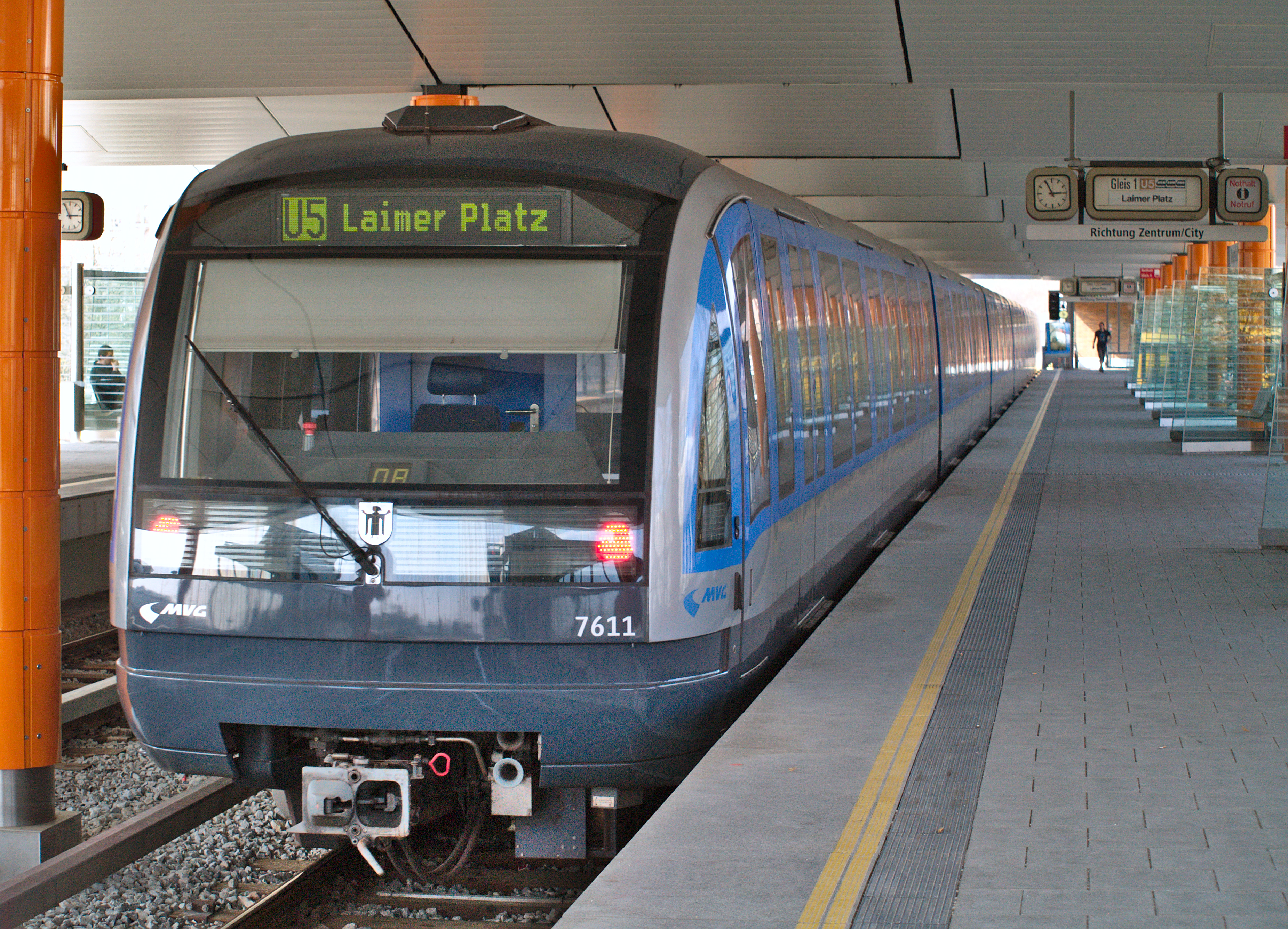 A Class C2 train (#611) of the Munich subway on route U5 (Neuperlach Süd ↔ Laimer Platz) is waiting for passengers in Neuperlach Süd terminus in the south-east of Munich